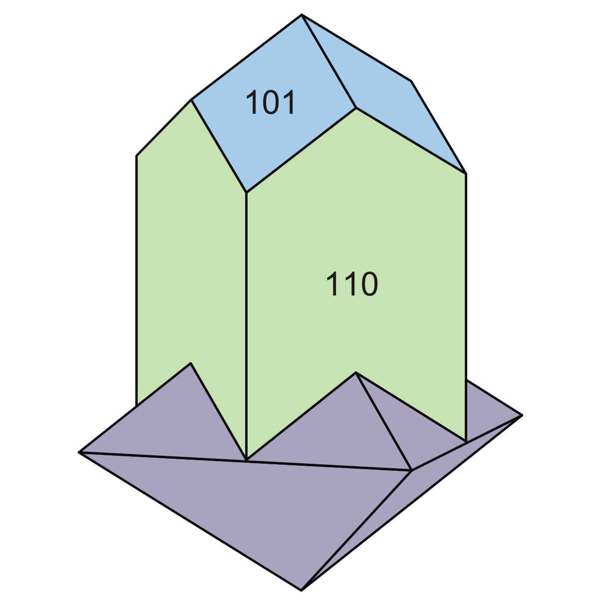 Epitactic intergrowth of zircon (green/blue) with xenotime-(Y) (violet) from the Isle of Hidra (Hitterø) in Norway. Reference: E. Zschau, Bemerkungen über das Vorkommen der phosphorsauren Yttererde in den Gangartigen Graniten des Norits auf Hitteröe in Norwegen, Neues Jahrbuch für Mineralogie etc. 1855, p. 521.